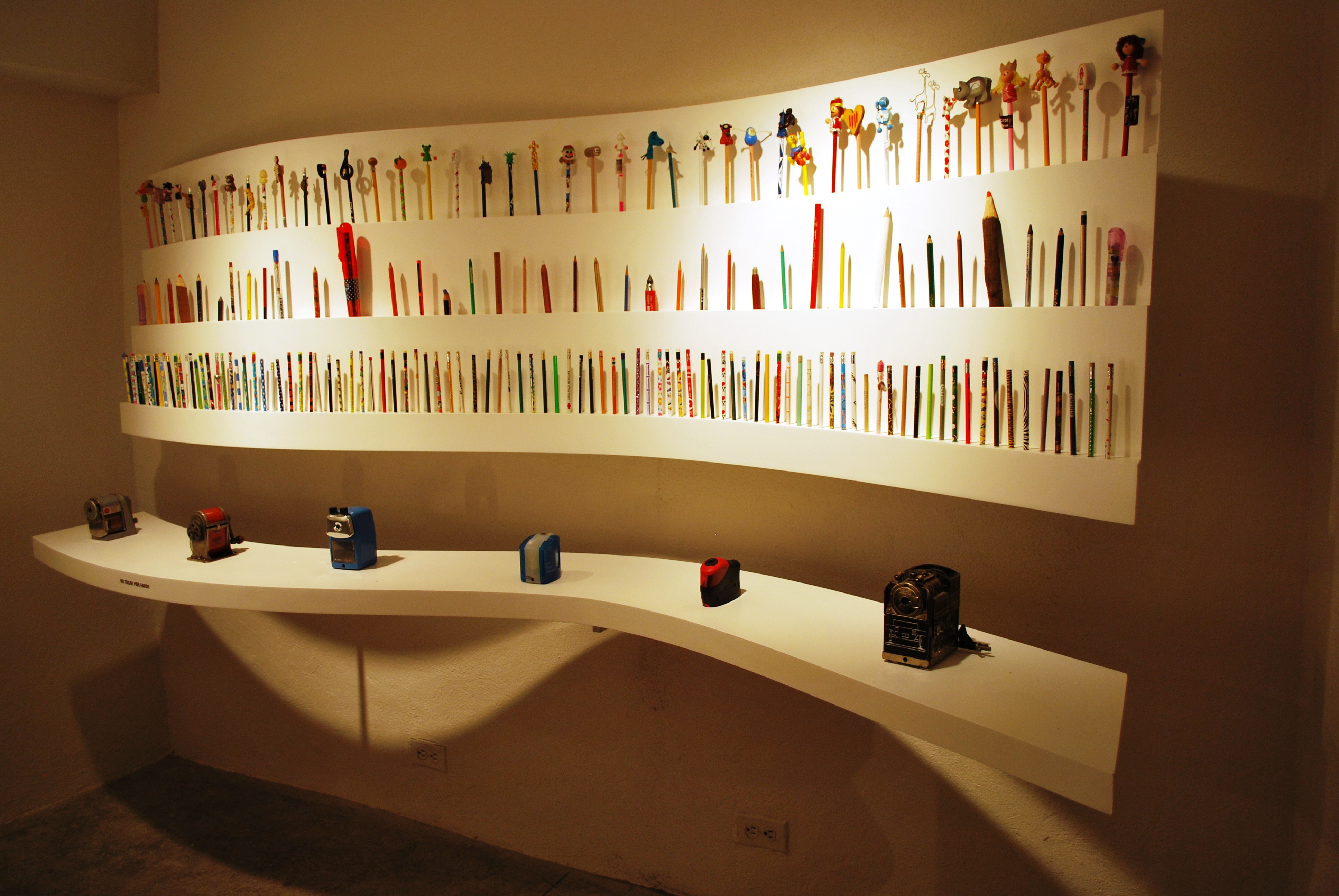 Display of pencils as part of the El MODO de Tassier exhibit at the Museo del Objeto del Objeto in Mexico City